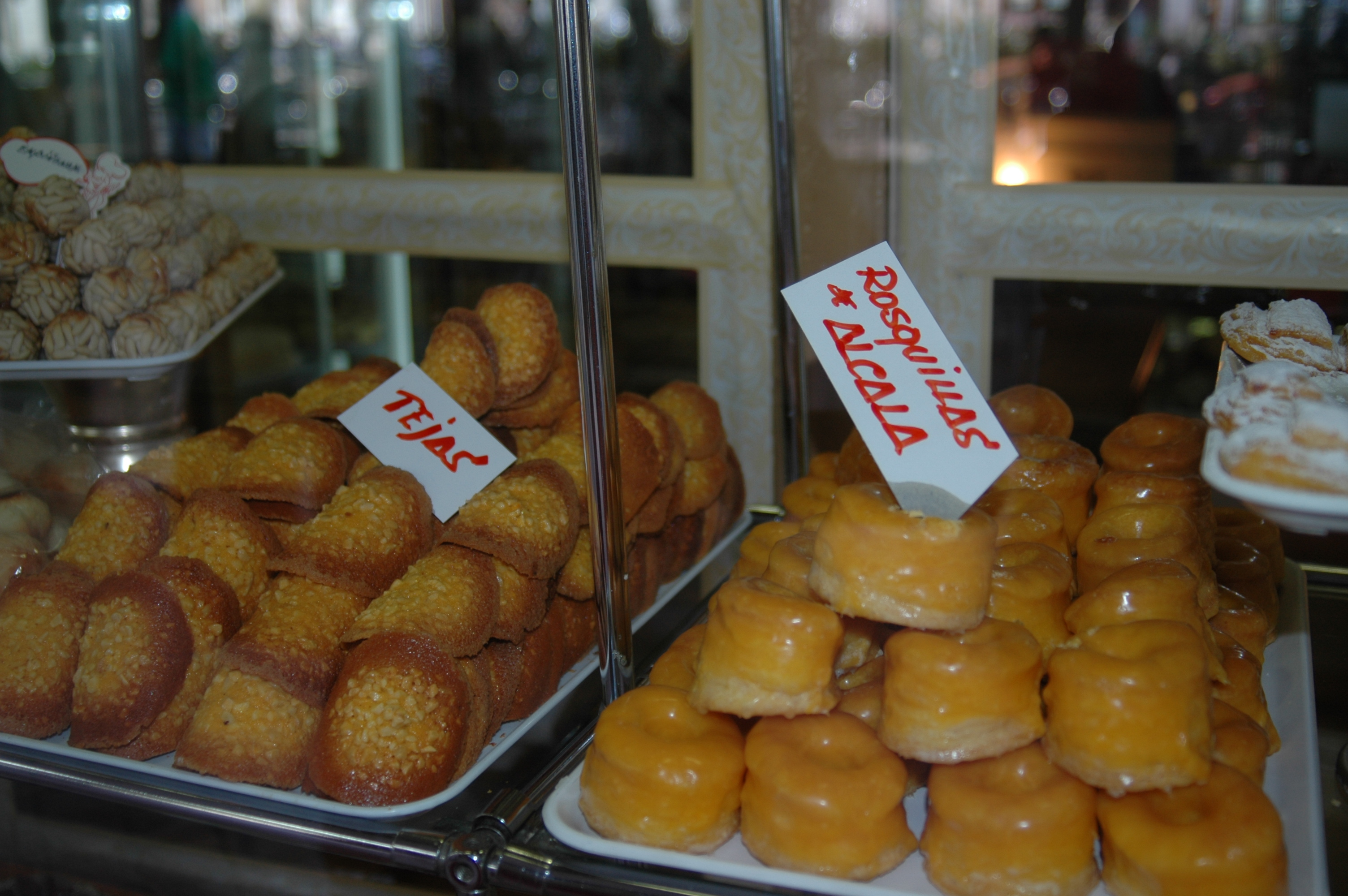 Typical desserts from Alcalá de Henares, province of Madrid, Spain